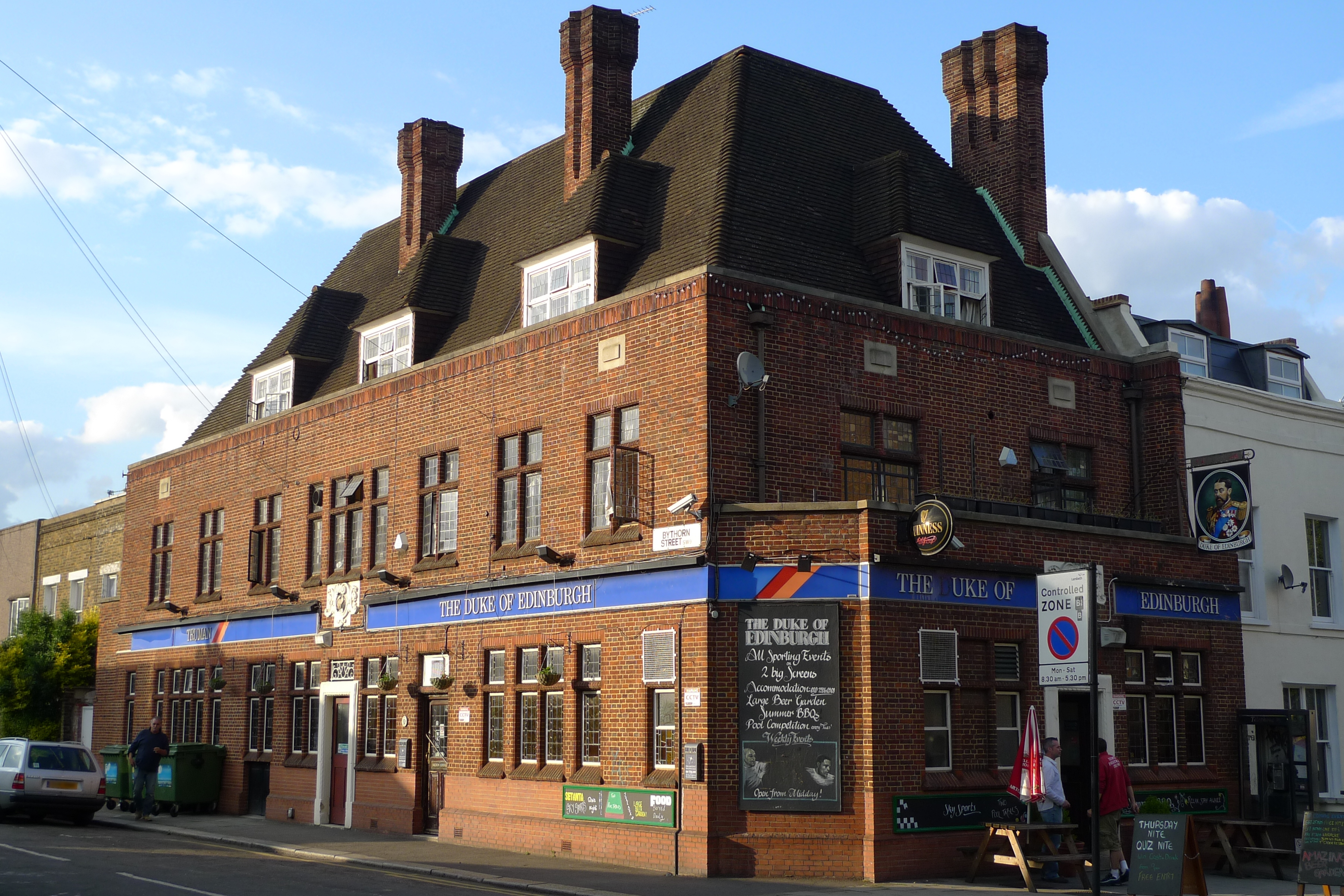 A locals' pub, but not a bad one it seems, and as of 2013 taken over by a small chain who are based mainly in Camden. (More recent photo of it.) Address: 204 Ferndale Road. Owner: Truman Hanbury Buxton (former). Links: London Pubology